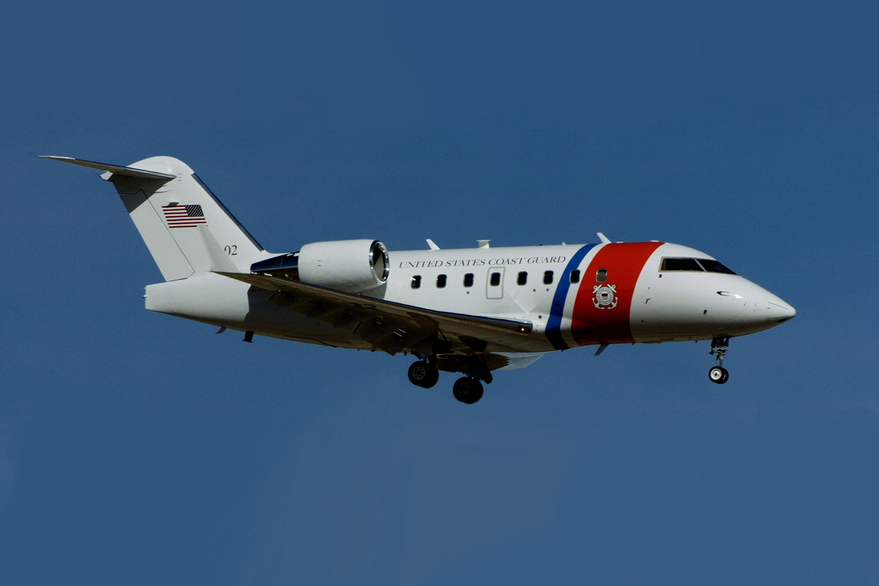 The U.S. Coast Guard VC-143 Challenger on short final to KDCA.